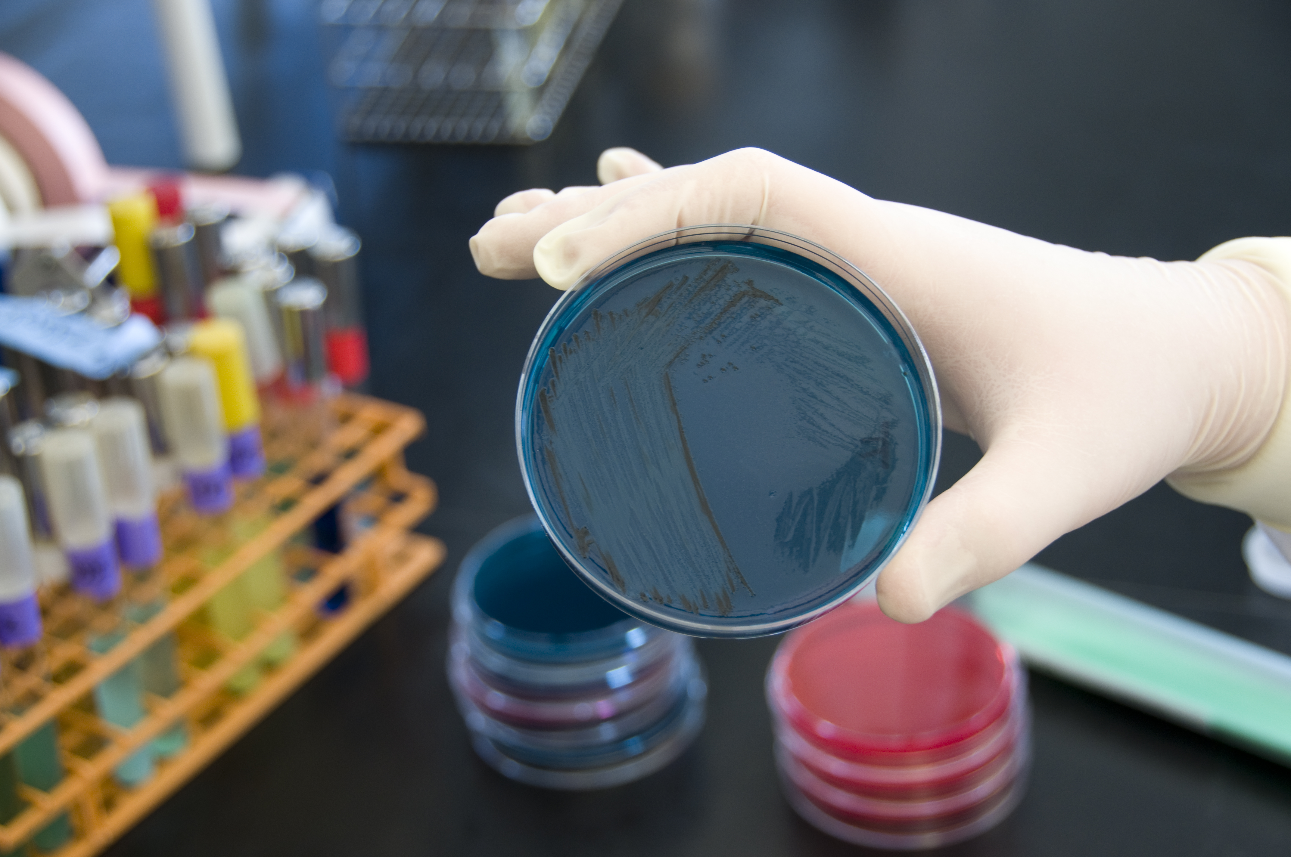 An FDA microbiologist tests seafood samples for the presence of Salmonella.